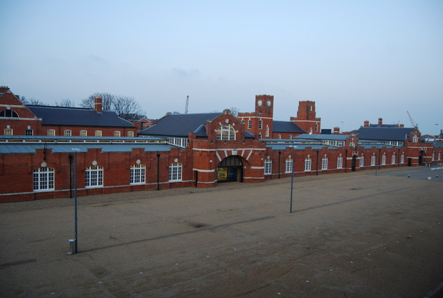 Drill Hall, Universities at Medway Campus Now the library for the Universities